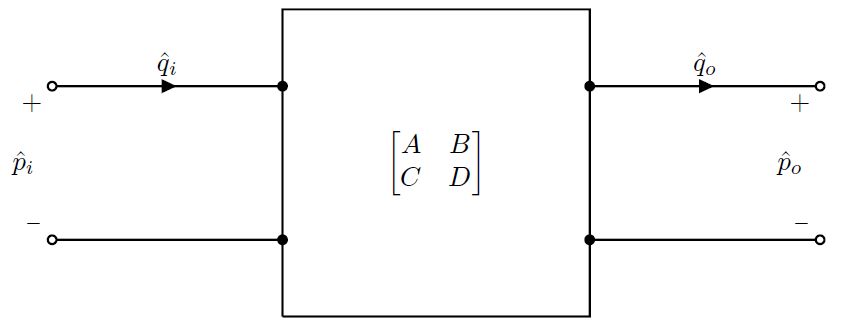 This is a plot used for illustrating TL (duct acoustic) with matrix